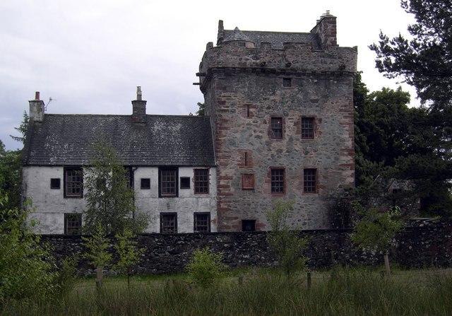 Hills Tower Hills Tower, near Lochfoot was the 16th century stronghold of the Maxwell Family.